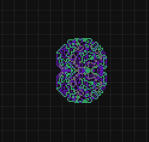 The n-color extension of Langton's Ant for the move sequence LLRR, at 123157 generations.